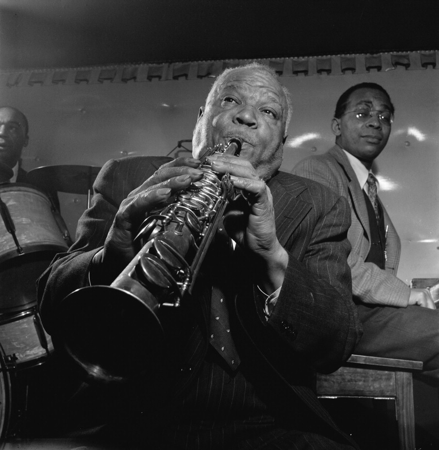 Portrait of Sidney Bechet, Freddie Moore, and Lloyd Phillips, Jimmy Ryan's (Club), New York, N.Y.